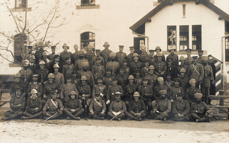 A group photo of British, Indian and Japanese officers after the Siege of Tsingtau/Tsingtao/Qingdao, in former German Moltke Barrack (Moltke Kaserne)